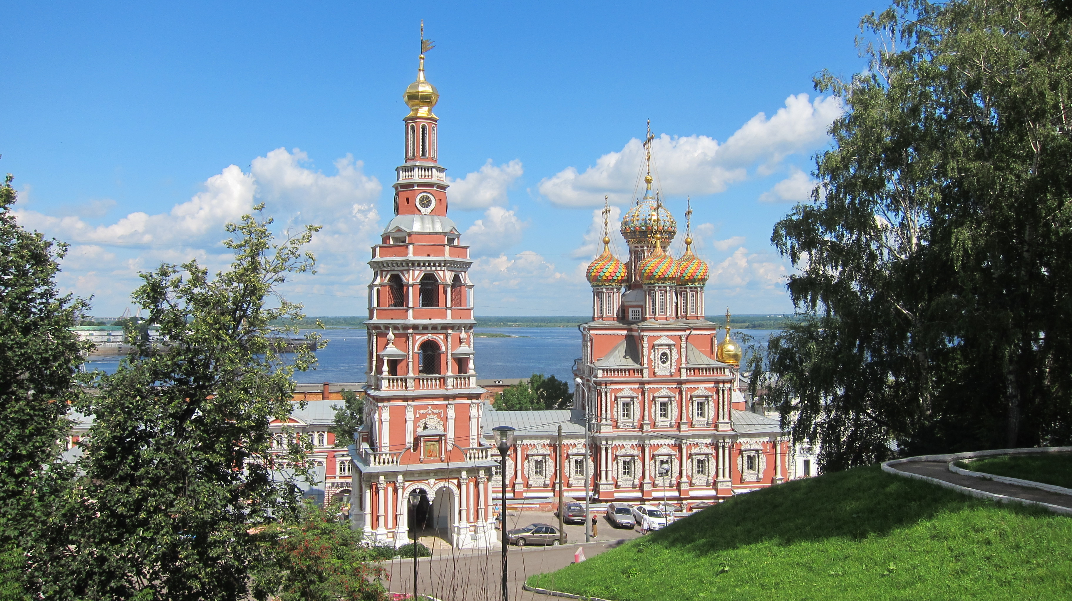 Church of the Nativity of the Theotokos in Nizhny Novgorod on Rozhdestvenskaya (former Mayakovskovo) Street, 34, and Suyetinskaya Street, 23